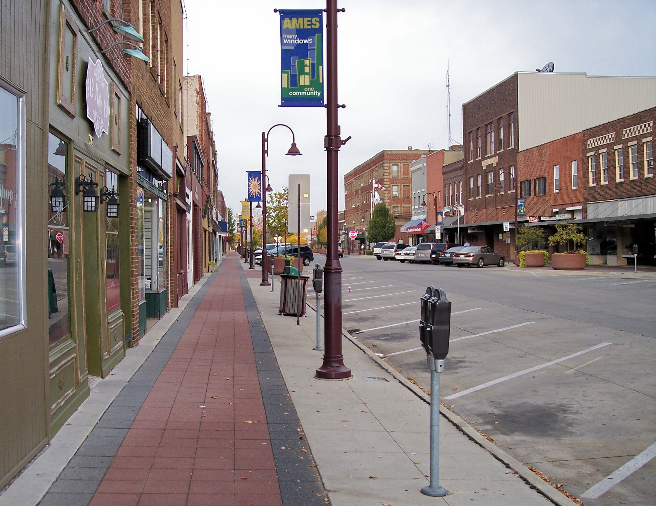 Main Street in downtown Ames, Iowa on a quiet morning